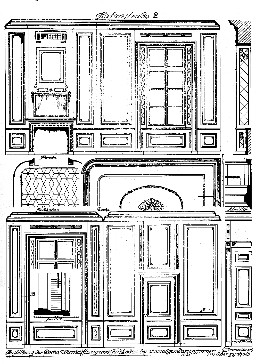 This is a photograph of an architectural monument.